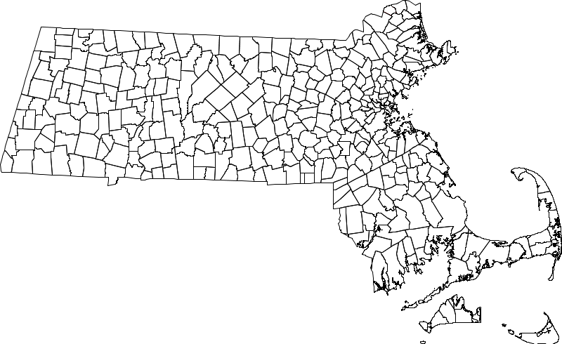 Generic image of Massachusetts with town and city outlines.